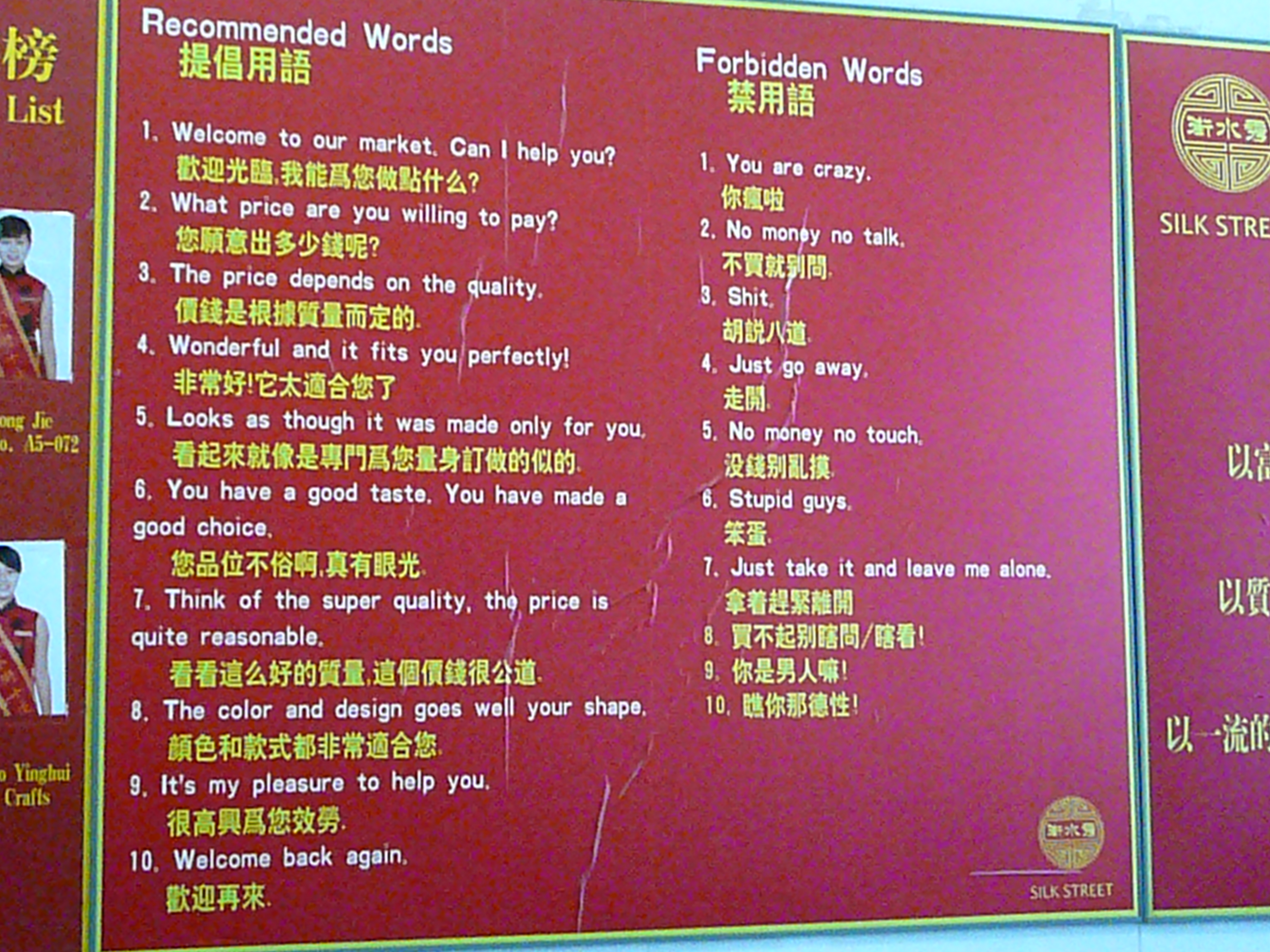 Recommended and forbidden vocabulary at the Silk Market, Beijing, China.